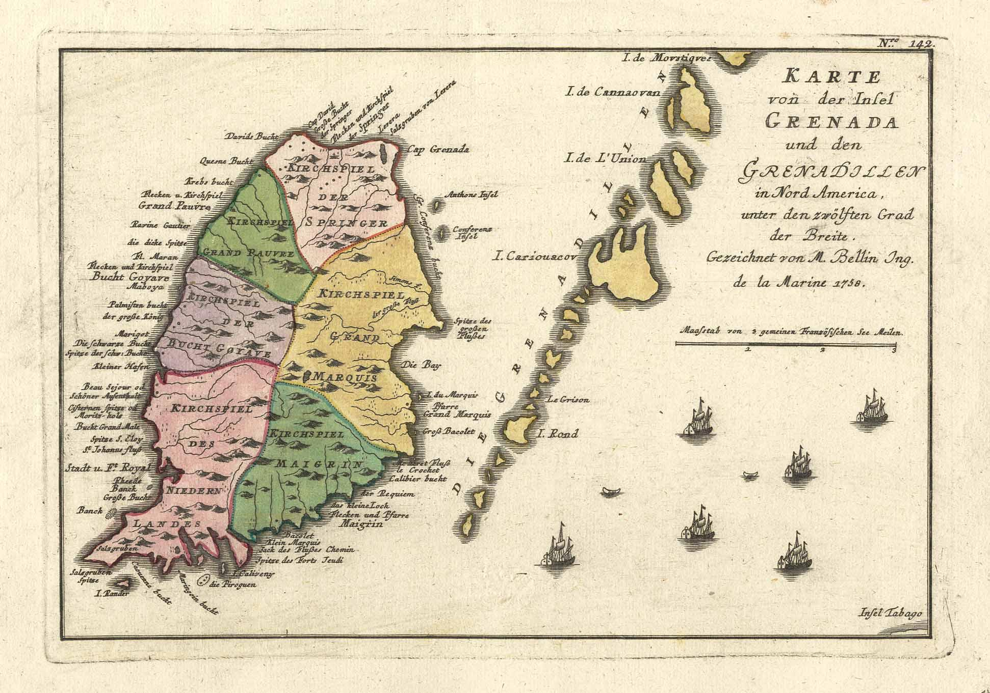 map of Grenada, Caribbean, showing parish subdivision